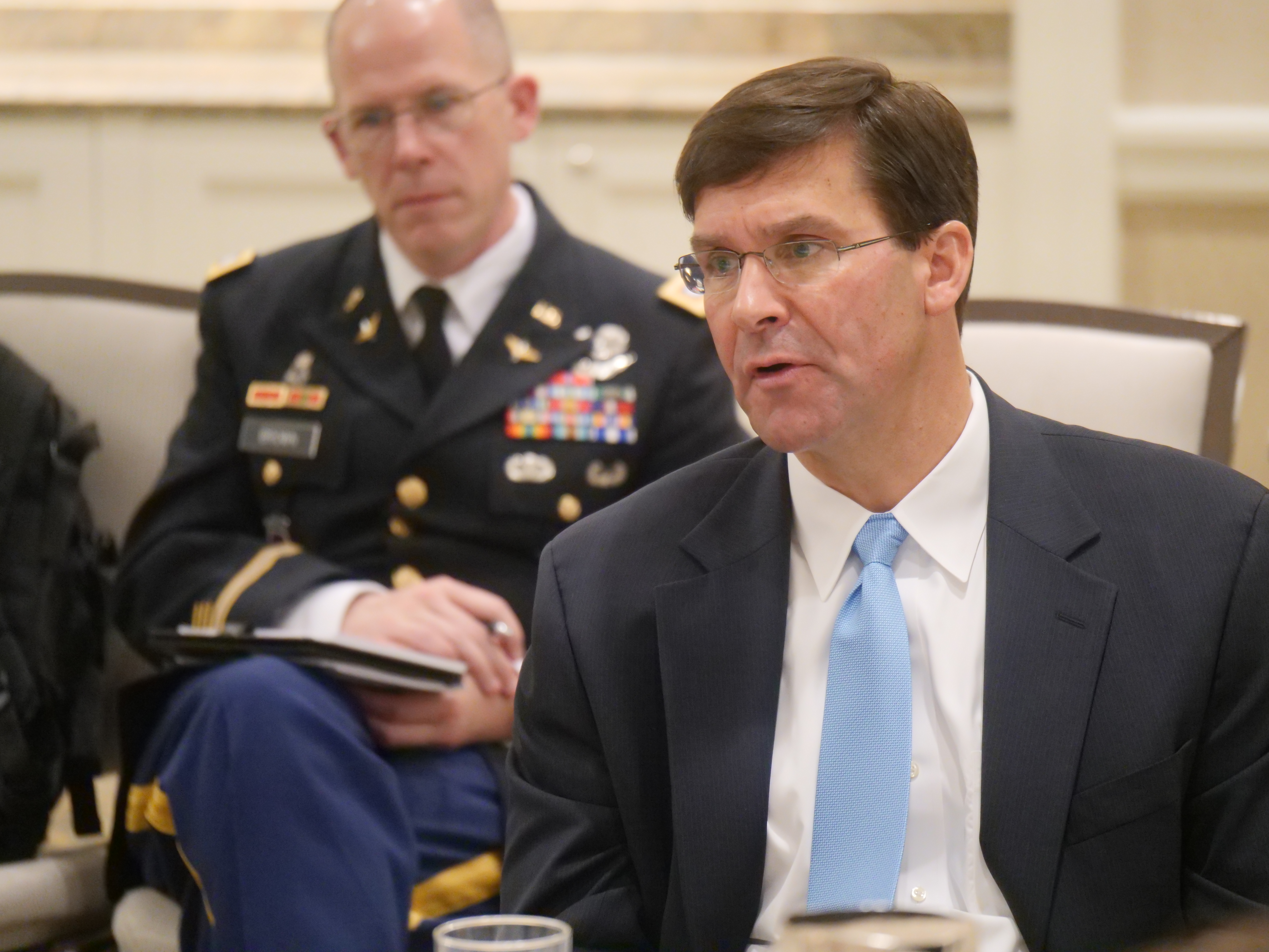 Secretary of the Army Dr. Mark T. Esper met with journalists from the Defense Writers Group, an association of news outlets with reporters that cover national security issues, at the Fairmont Hotel on Wednesday, August 29, 2018. The Defense Writers Group is housed at the George Washington University's School of Media and Public Affairs under the Project for Media and National Security.